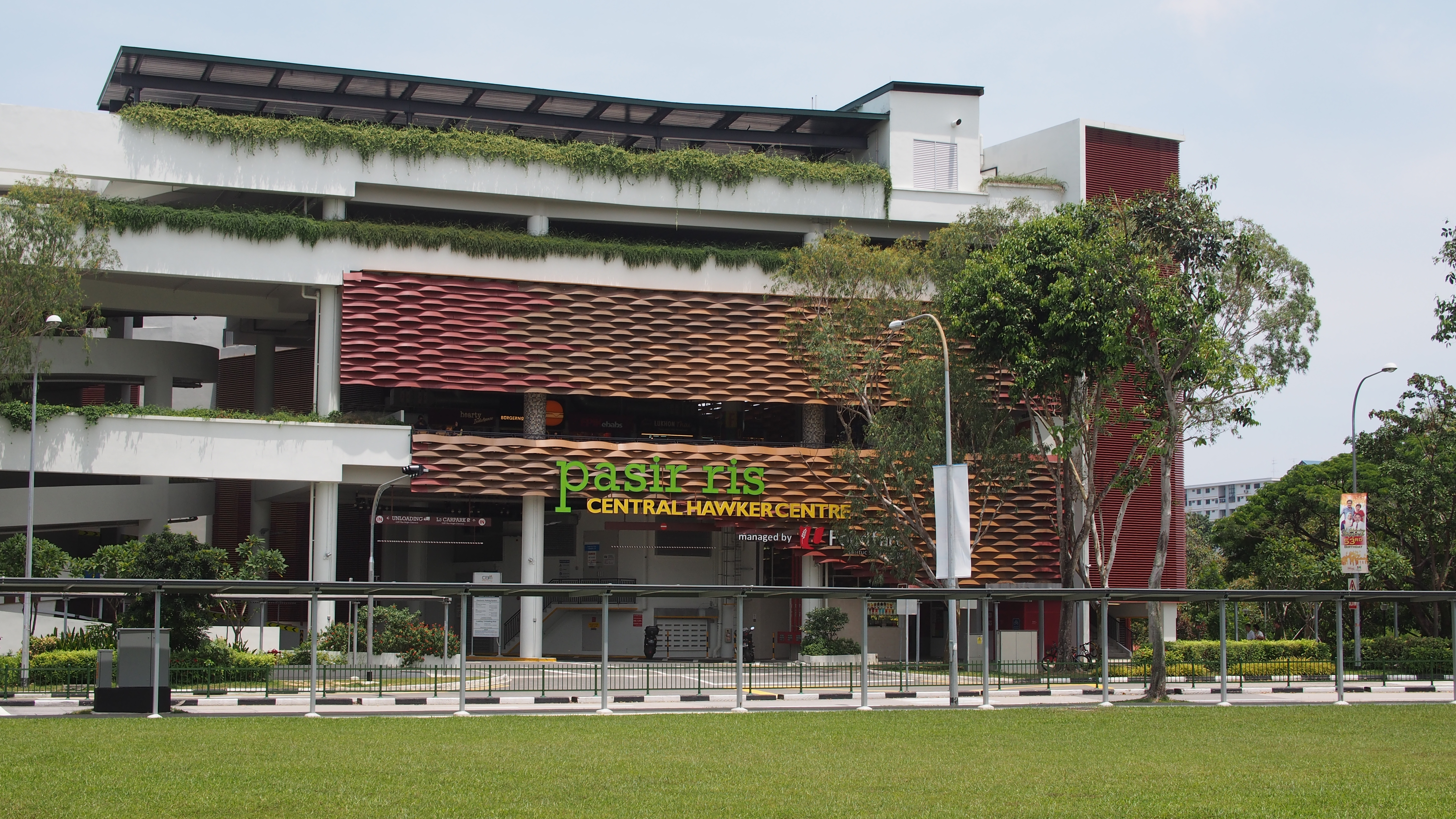 Pasirris Central Hawker Center